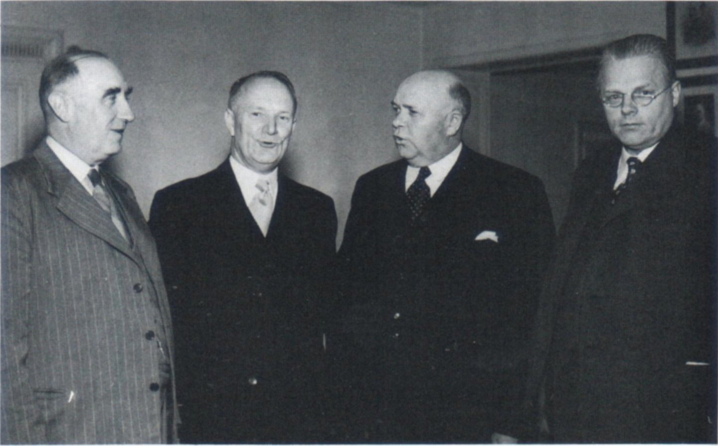 Four members of the Swedish cabinet. Ivar Persson i Skabersjö, Gunnar Hedlund, Sam B Norup and Hjalmar R Nilson